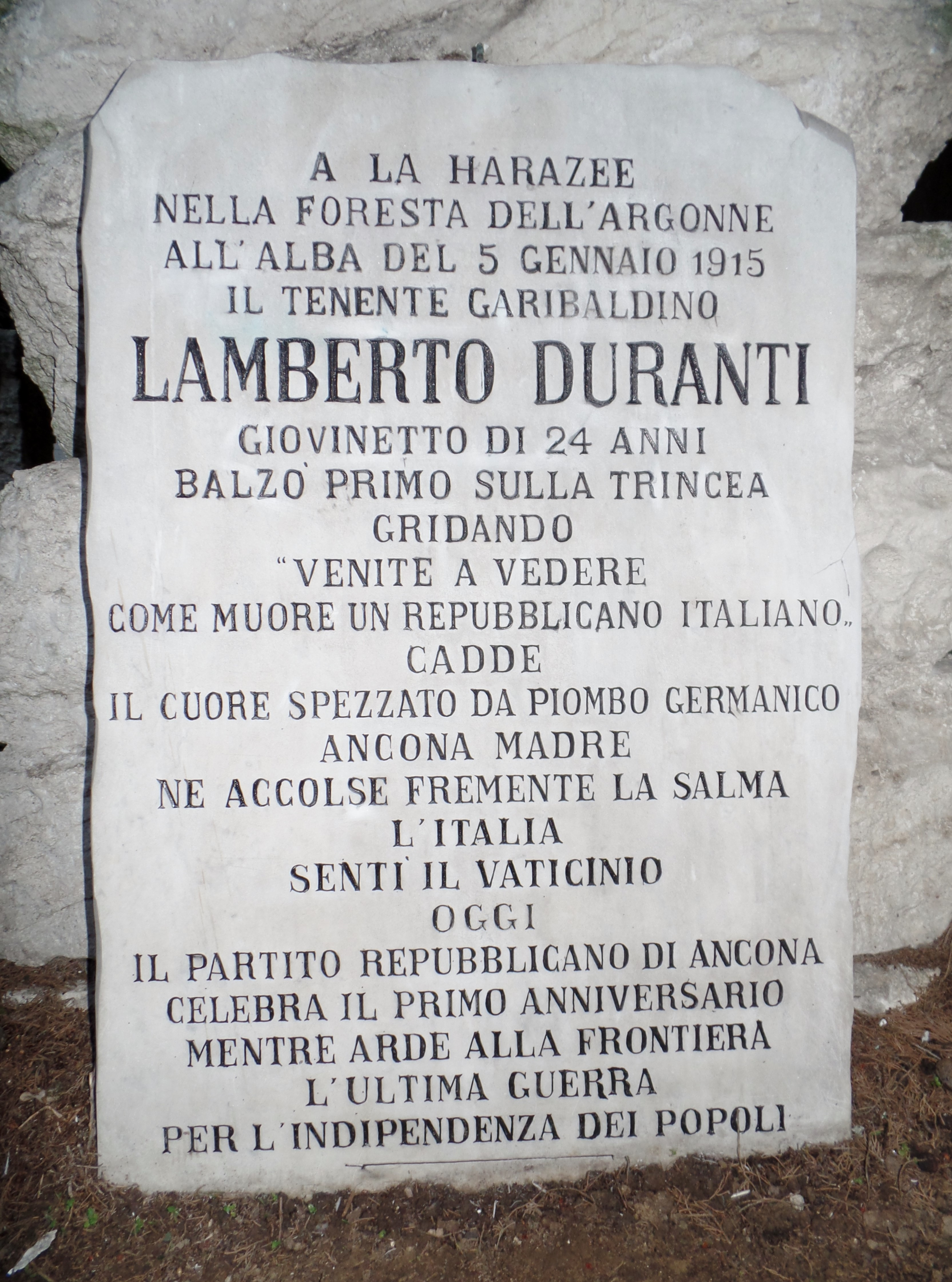 Lamberto Duranti Tavernelle AN - lapide